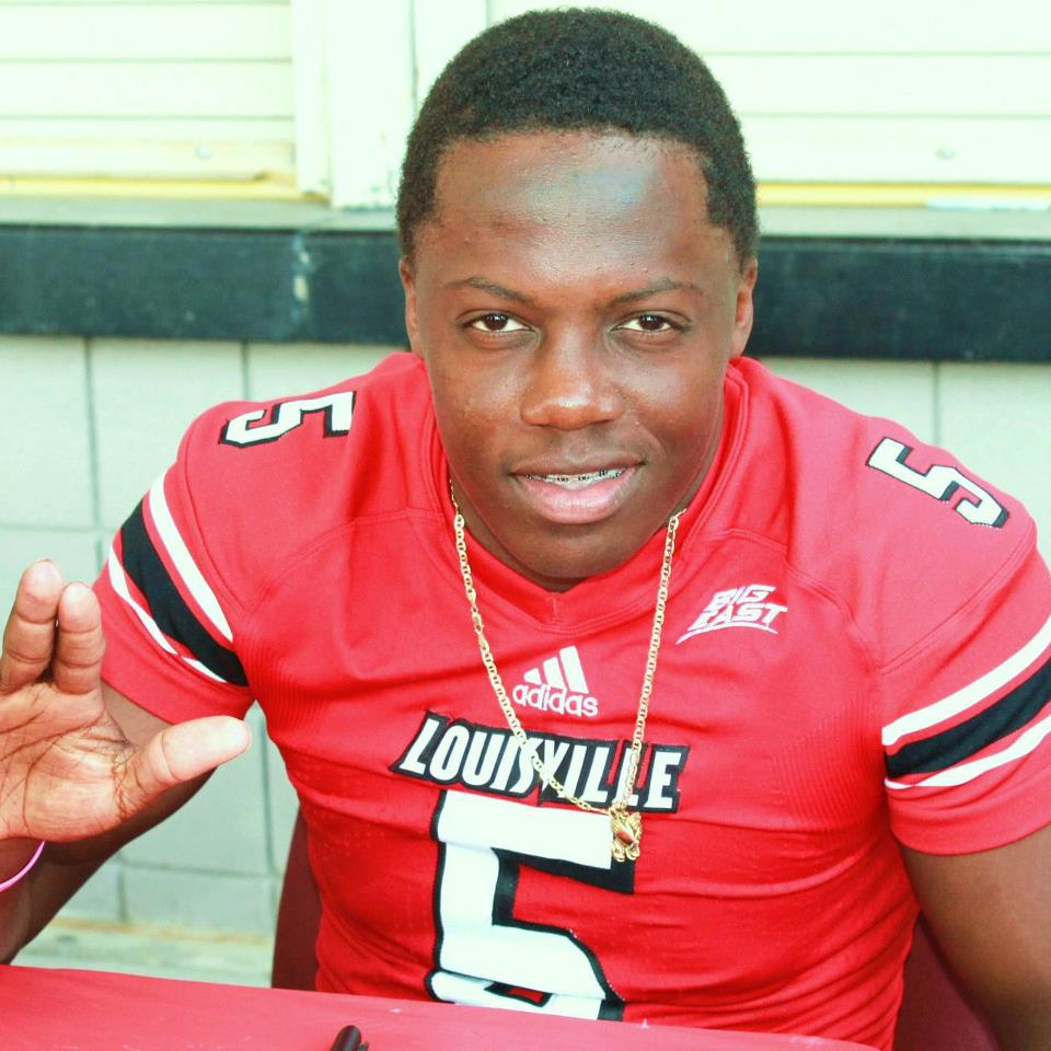 photo credit to Shane Stovall